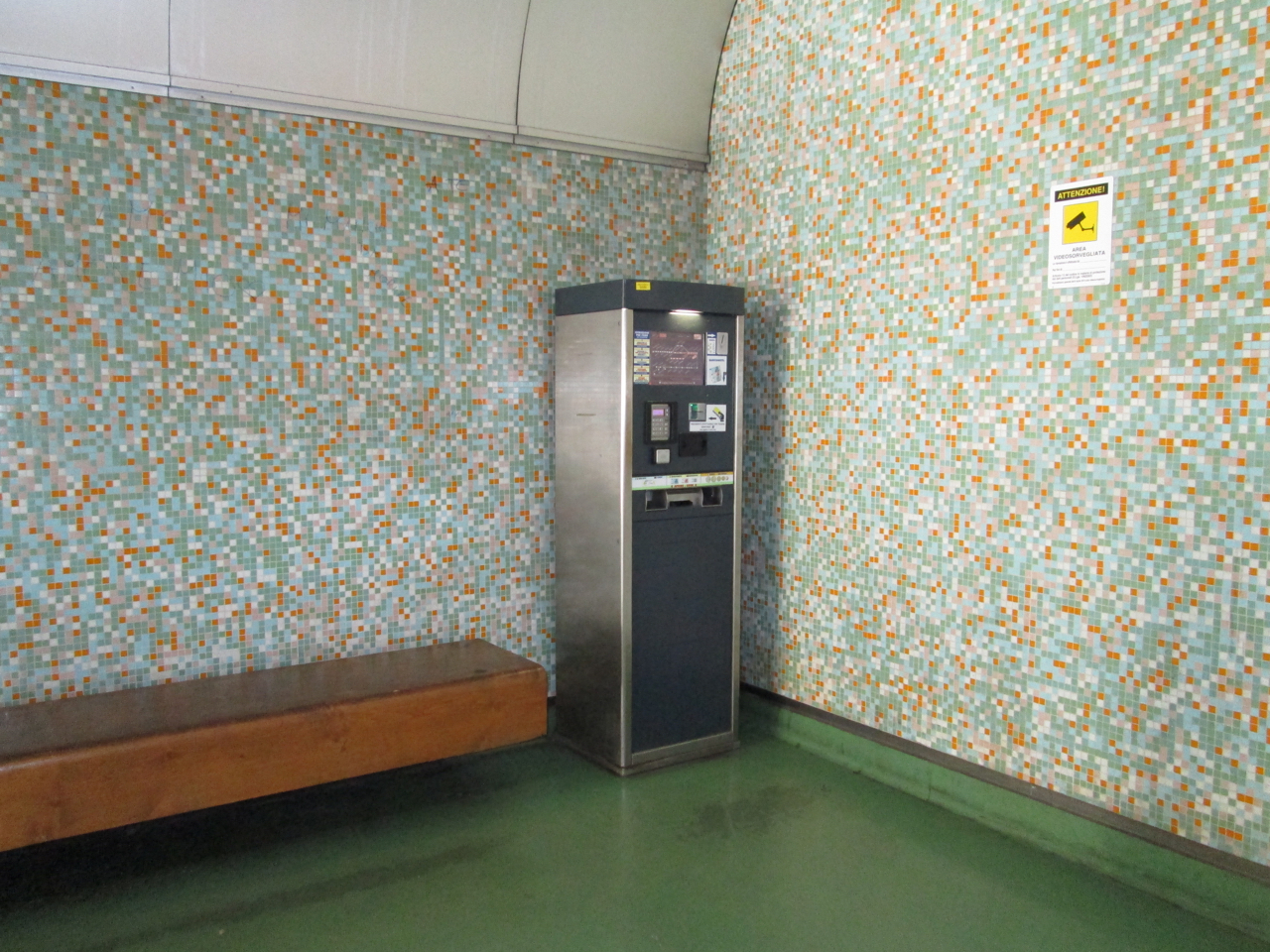 Ticket vending machine at Quintino Sella station.